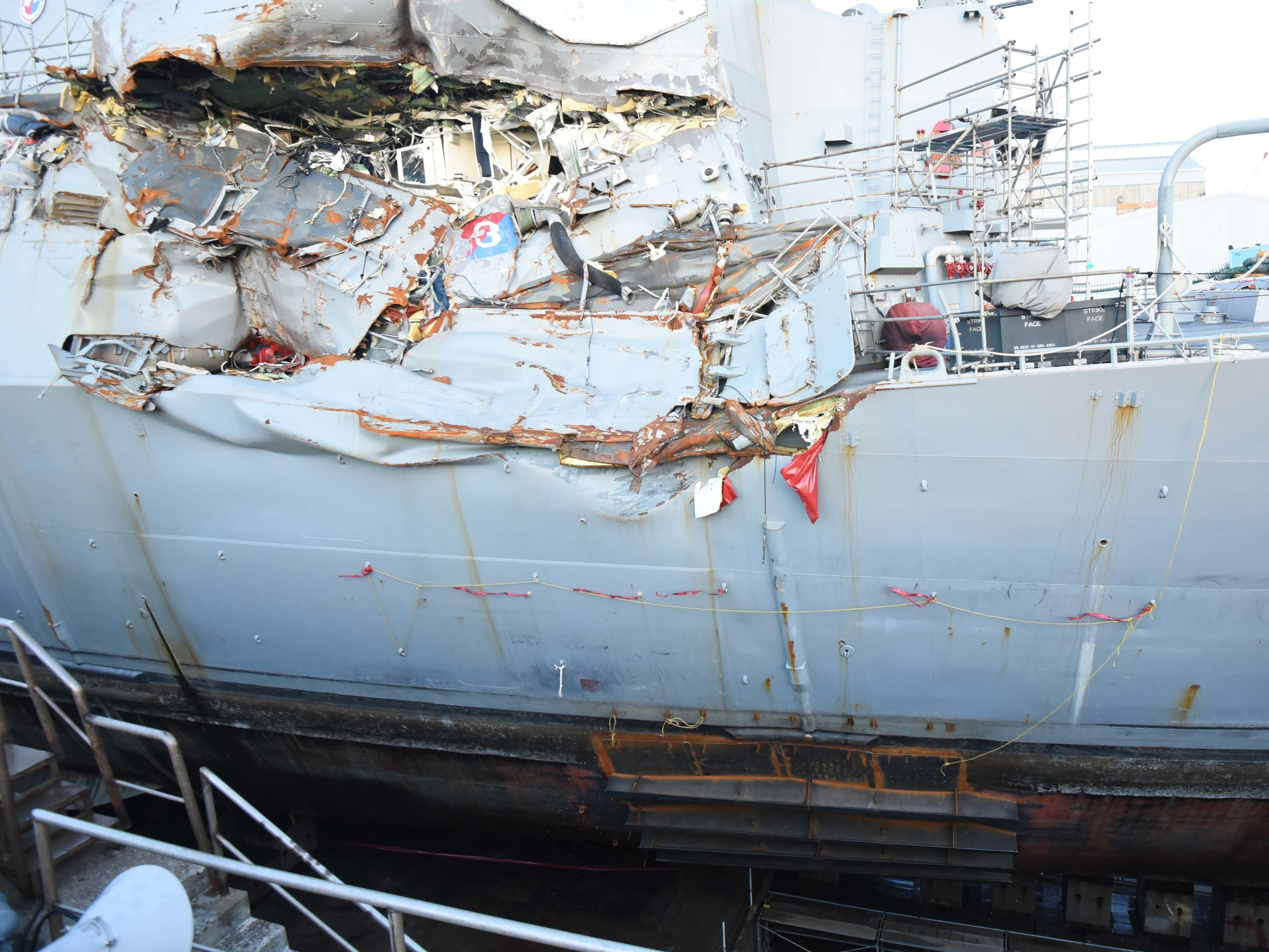 170711-N-VA840-008 YOKOSUKA, Japan (July 11, 2017) The Arleigh Burke-class guided-missile destroyer USS Fitzgerald (DDG 62) sits in Dry Dock 4 at Fleet Activities (FLEACT) Yokosuka to continue repairs and assess damage sustained from its June 17 collision with a merchant vessel. FLEACT Yokosuka provides, maintains, and operates base facilities and services in support of U.S. 7th Fleet's forward-deployed naval forces, 71 tenant commands and 26,000 military and civilian personnel. (U.S. Navy photo by Mass Communication Specialist 1st Class Leonard Adams/Released)